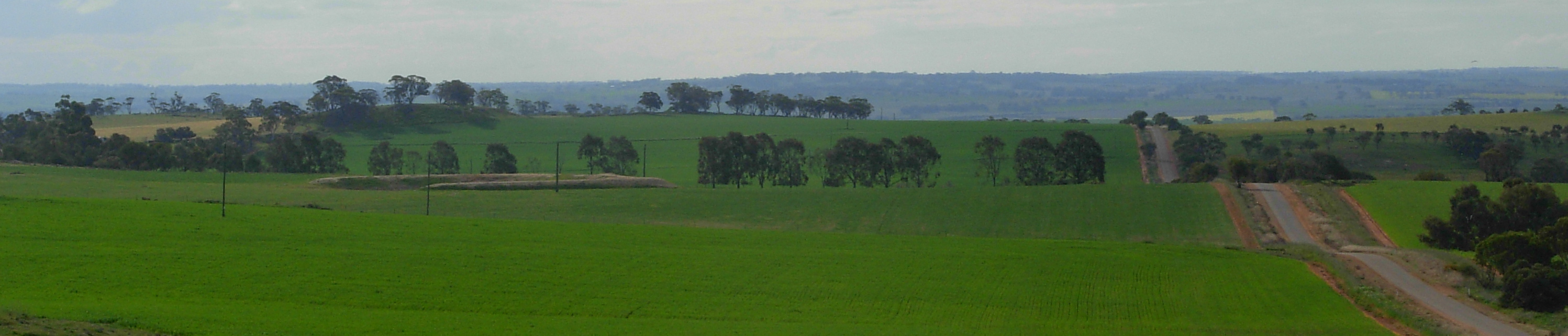 Scenery of the Wheatbelt region looking North from Centenary Hill, near the corner of Southern Brook & Habgood Roads, east of Northam, Western Australia.